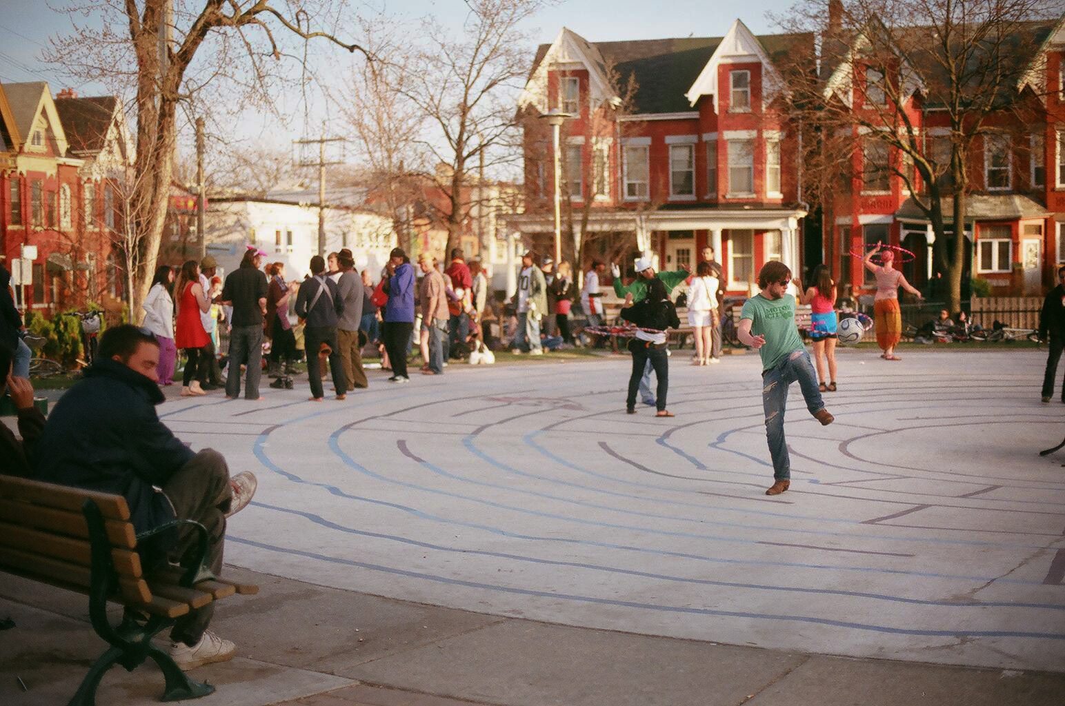 A group of people playing soccer, singing, and dancing at Bellevue Square Park in Kensington Market on a Sunday afternoon.